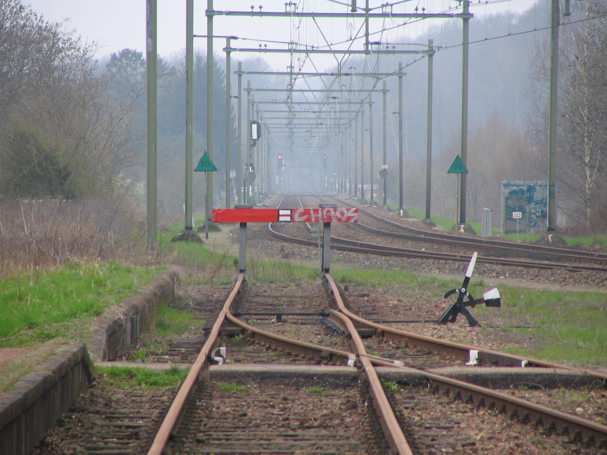 Cut connection of the ZLSM railtracks at station Schin op Geul, seen in the direction of Valkenburg, a situation which existed until 2006.